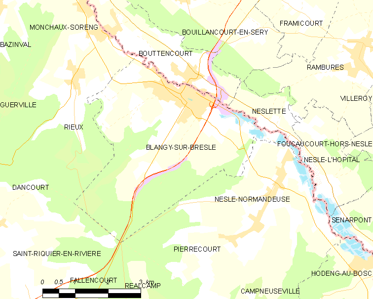 Map of French municipality Blangy-sur-Bresle